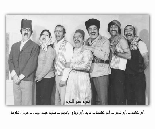 A black and white photo of a group of actors that where in the Syrian Drama Sah ennoam (صحالنوم) Produced in Syria in Circa 1969